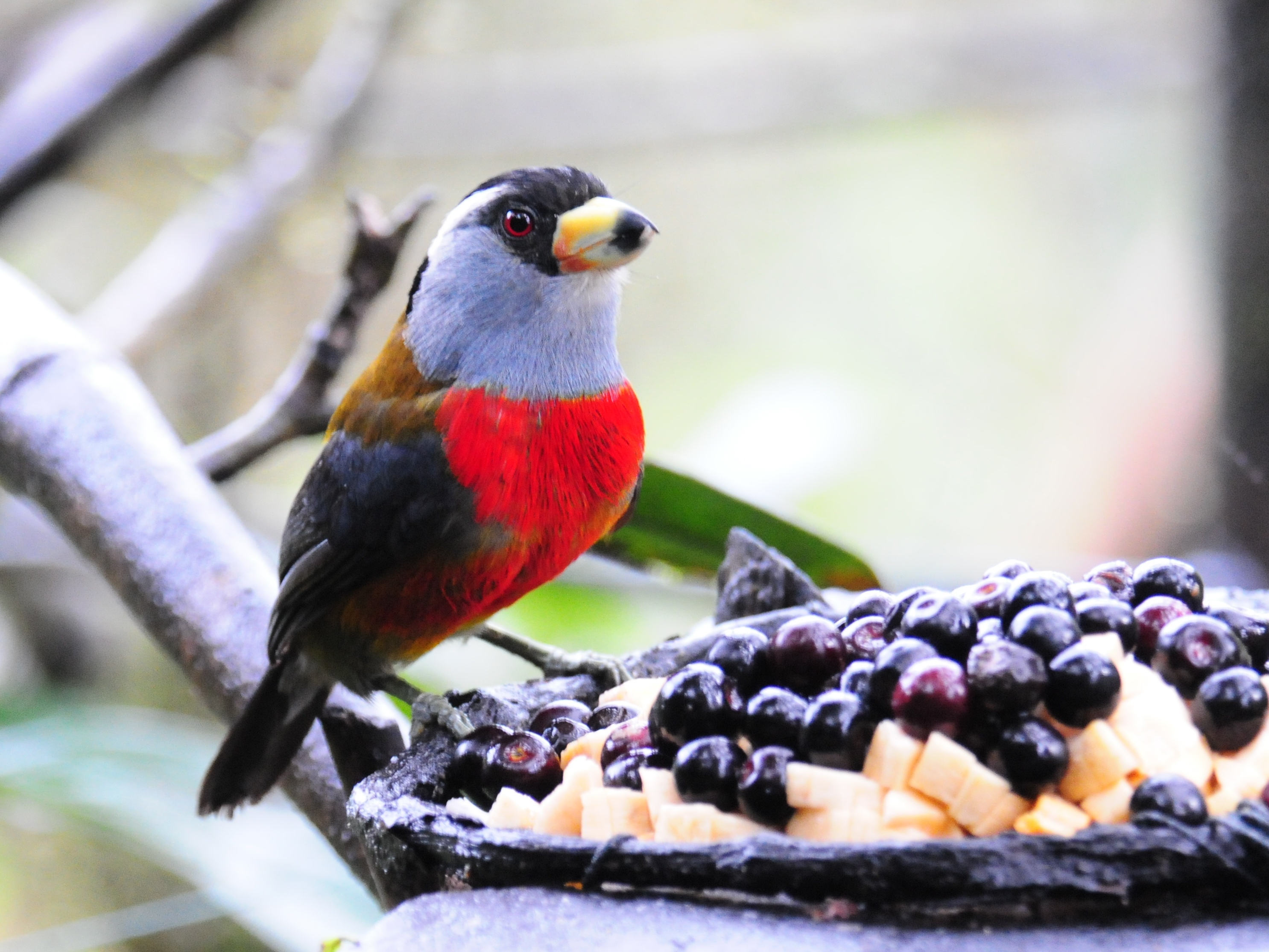 A Toucan Barbet in Mindo, Ecuador.